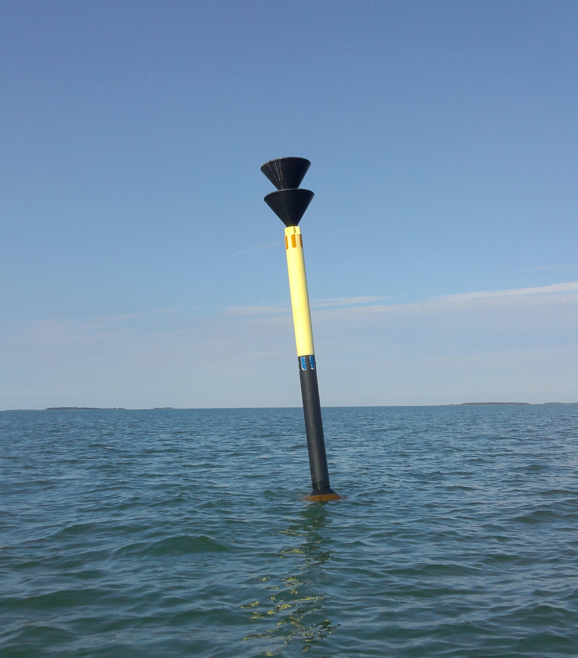 Väinakari south spar buoy. View from southwest. Kõrgelaid left side, Ahelaid right side of the background (these are small islands). Western part of Estonia.